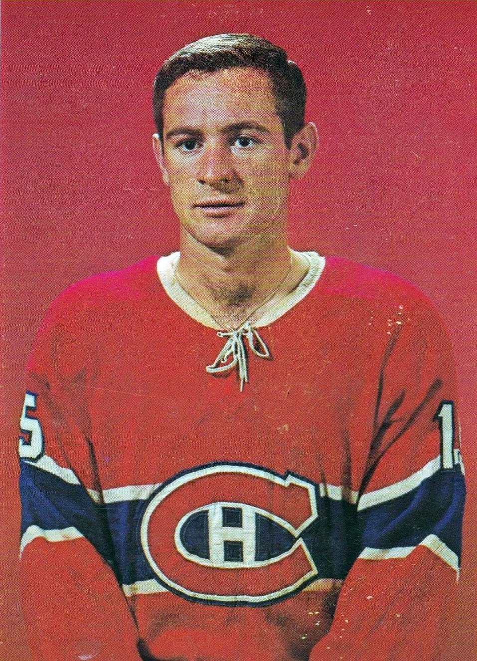 Bob Rousseau, Montreal Canadiens Printed on Chex Cereal Boxes from 1963 to 1965 per [1] and [2]. No copyright notices are observed on the obverse or reverse of the photos.